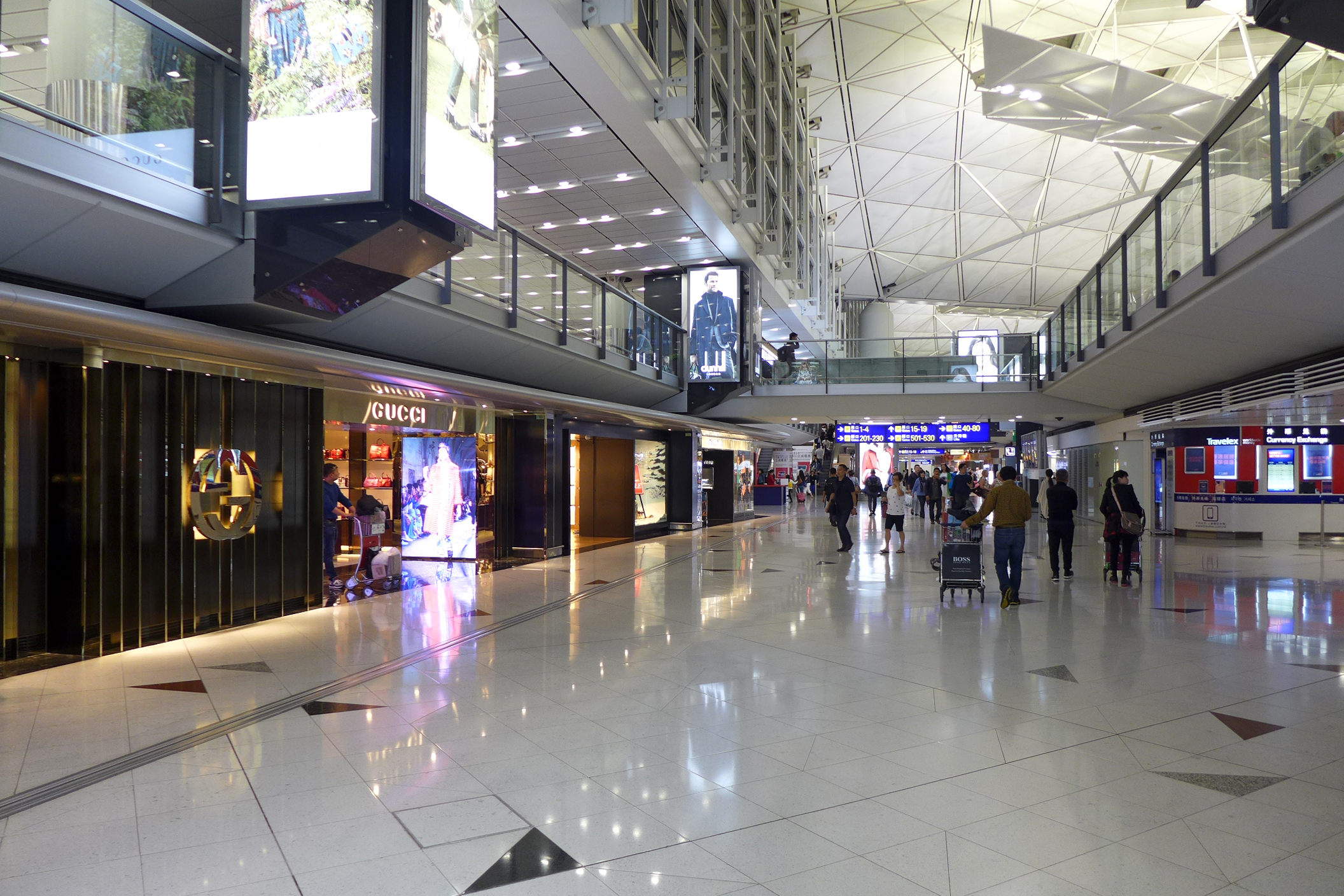 SkyMart Shops